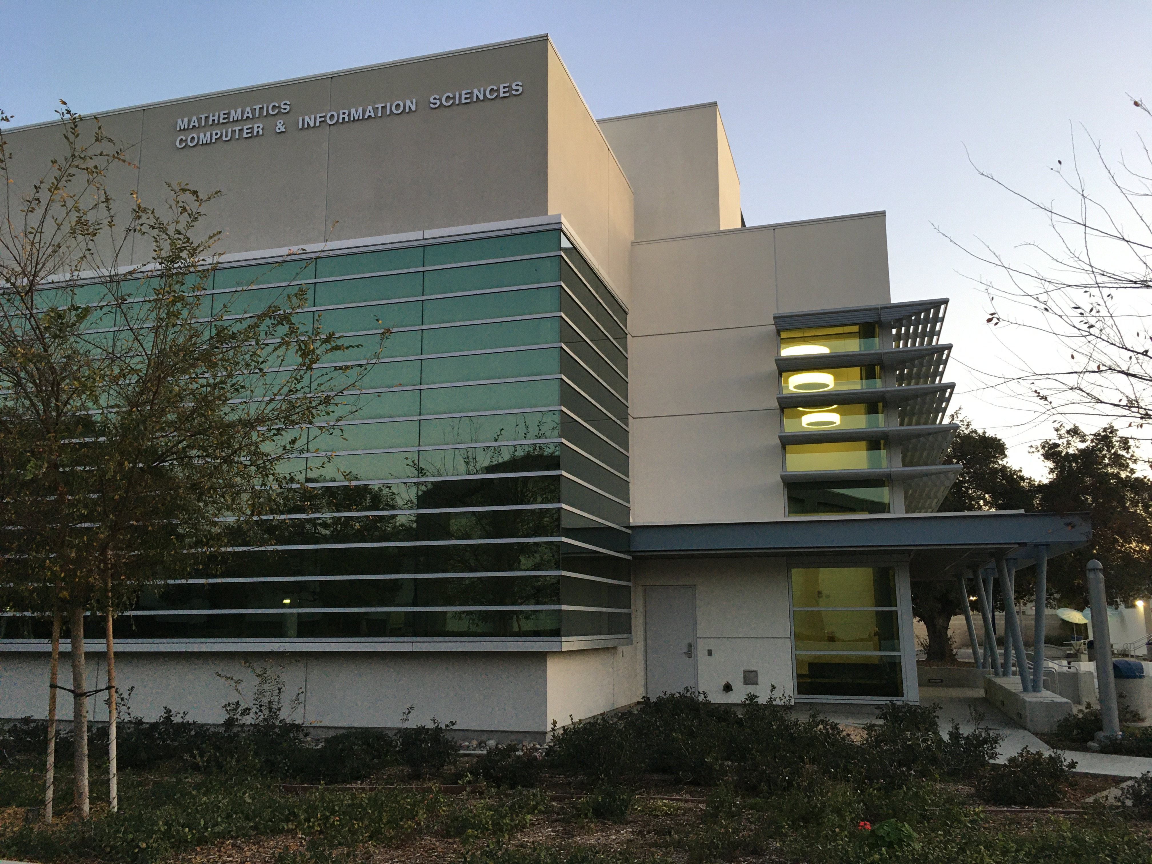 Cerritos College Mathematics and Computer Information Sciences building